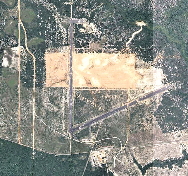 USGS digital orthophoto of Baldsiefen Field, an airfield in Florida